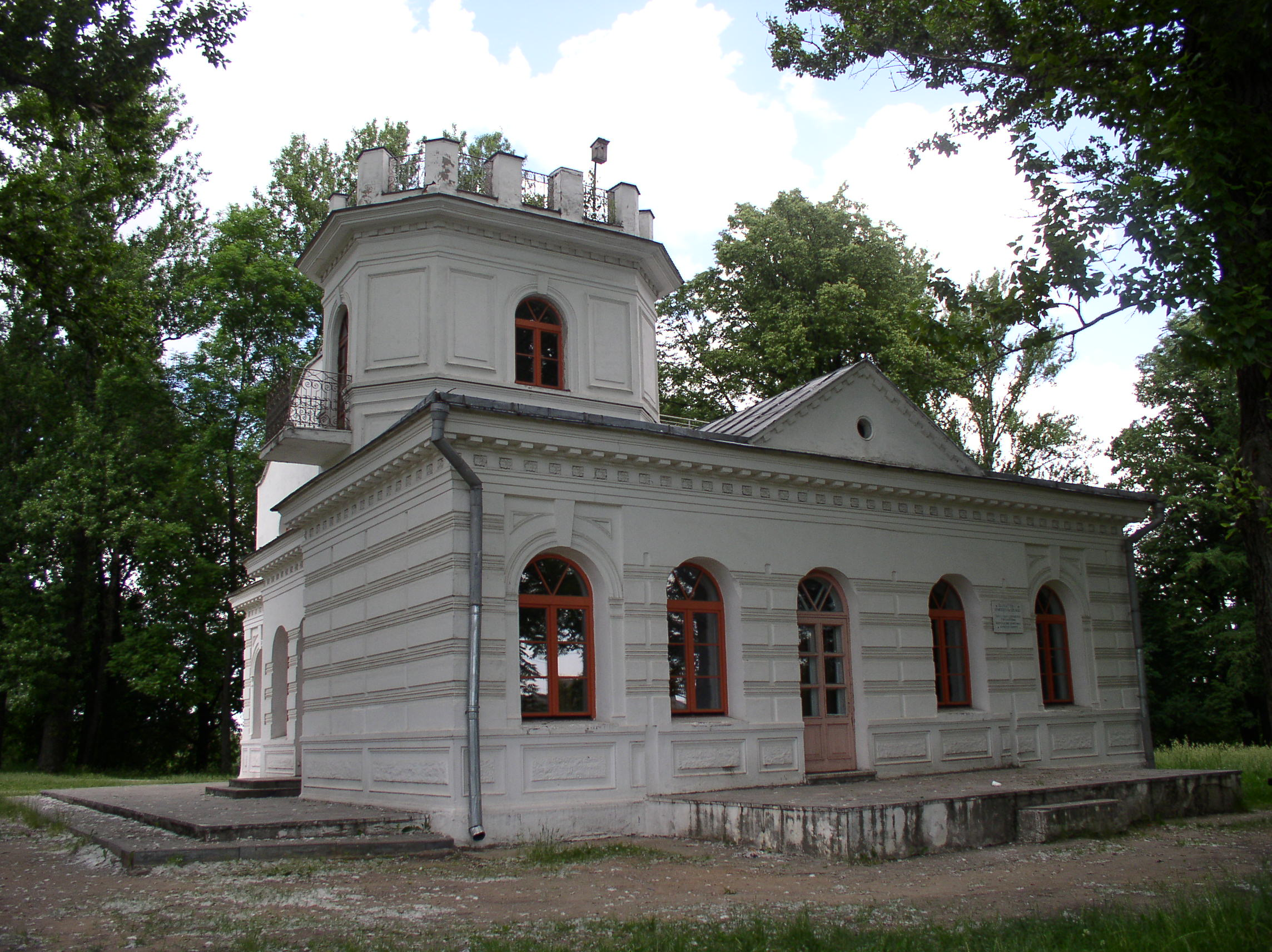 Manor of Adadurov. Minsk, Belarus.